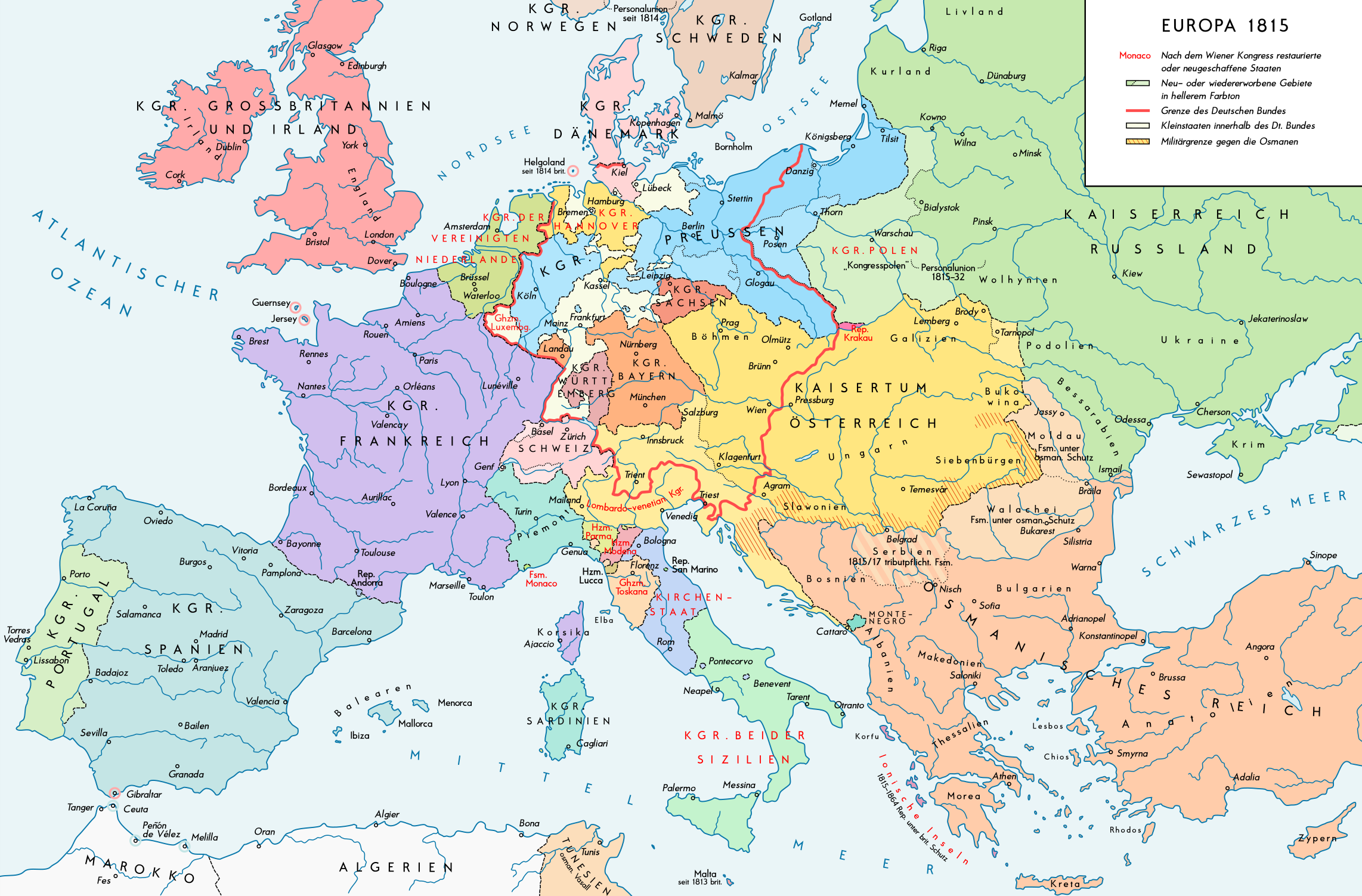 Europe 1815. Political situation after the Congress of Vienna in June 1815. Please don't alter the map, when you think there something not written or depicted correctly. Leave a message at the talk page of the file. After a verificiation and a possible discussion, i will upload a new map version with all new changes. This prevents an unnecessary waste of disc space and ensure a good result, aesthetically and contentwise. - The author.